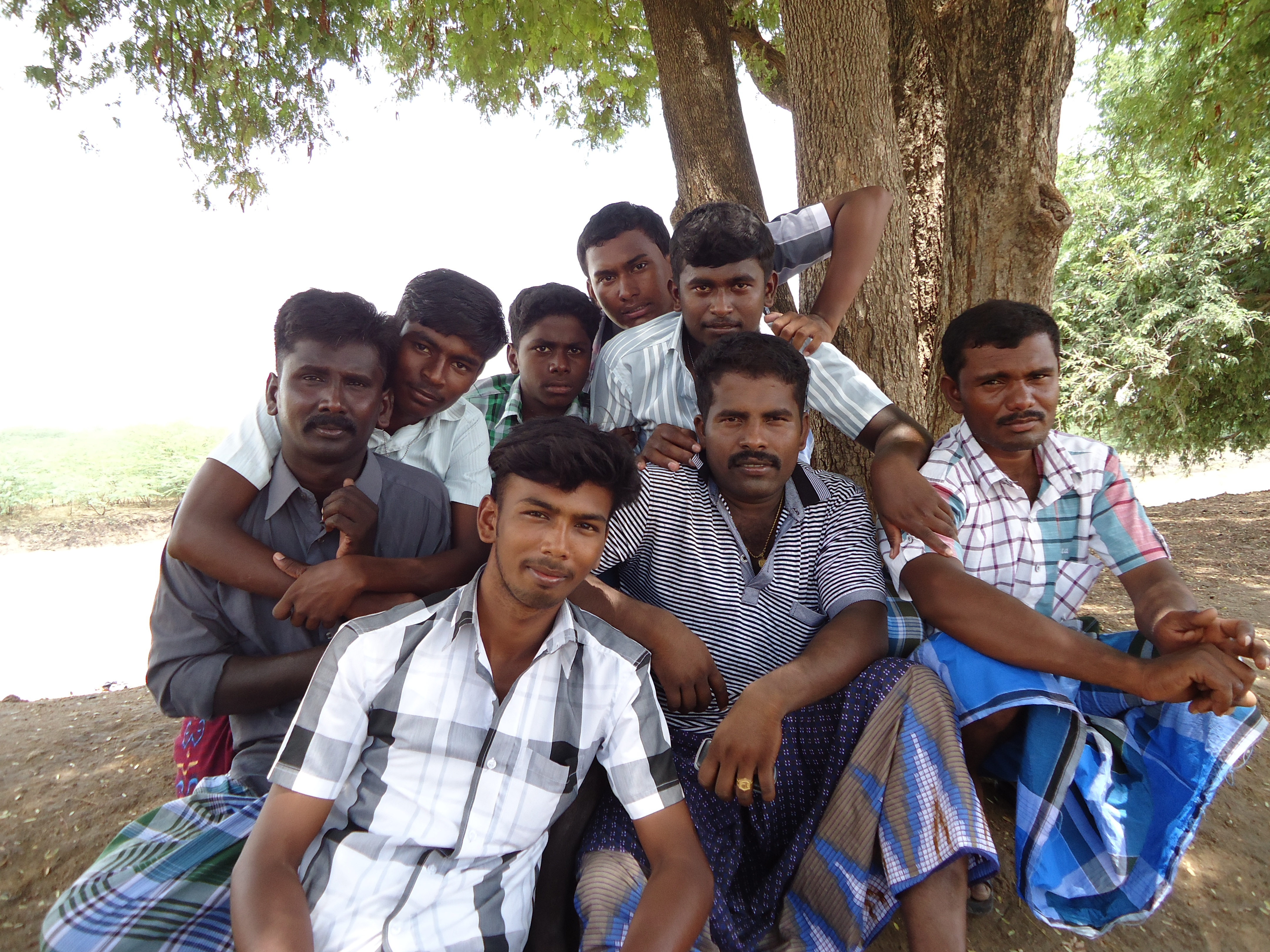 Yadava Young Guys Parukkaikudi11